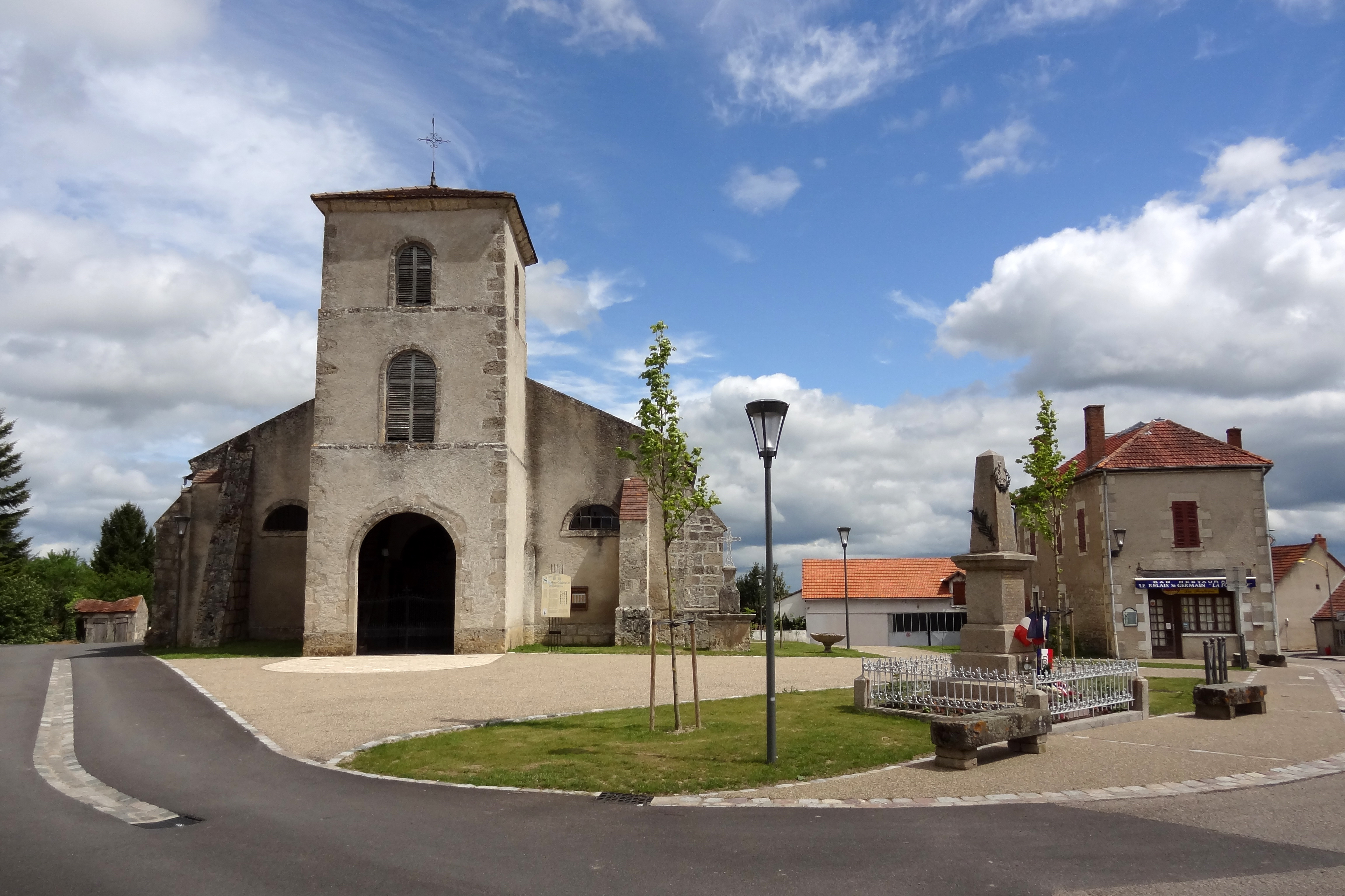 Sainte-Marie-Madeleine church, Rongères, France